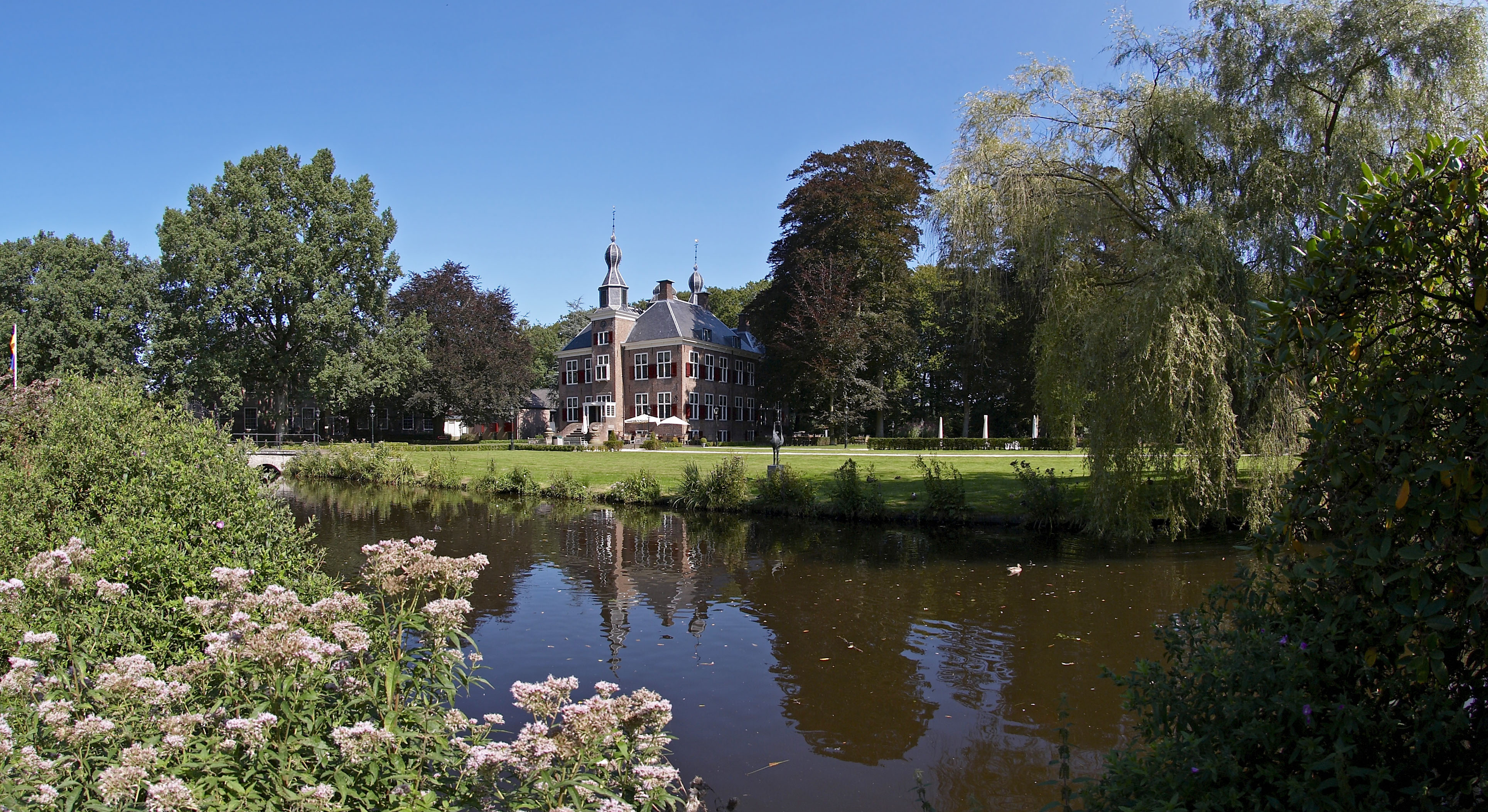 Castle 'De Essenburgh' in Hierden, The Netherlands